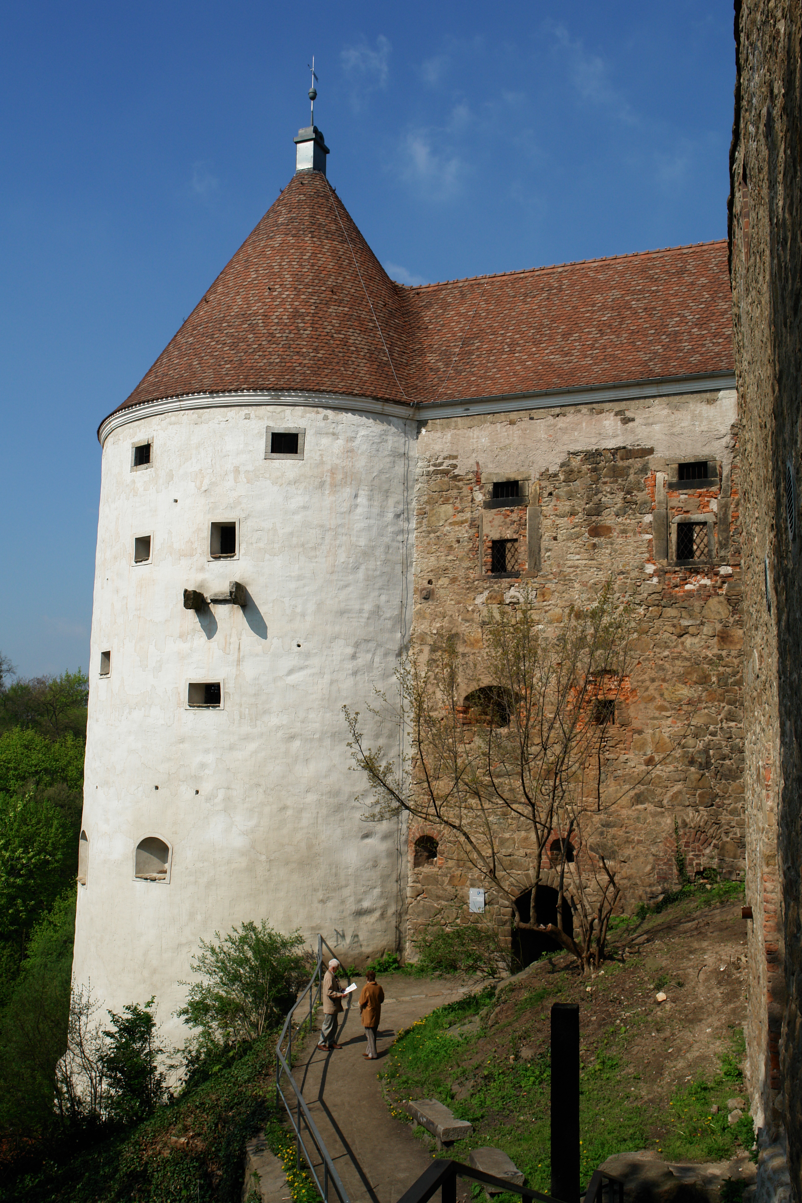 Water tower of the Ortenburg in Bautzen, Germany.